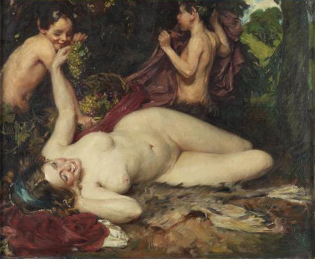 A bacchante and fauns, 1902-1912, by Isobel Gloag. Purchased 1912 by public subscription. Te Papa (1912-0021-1)